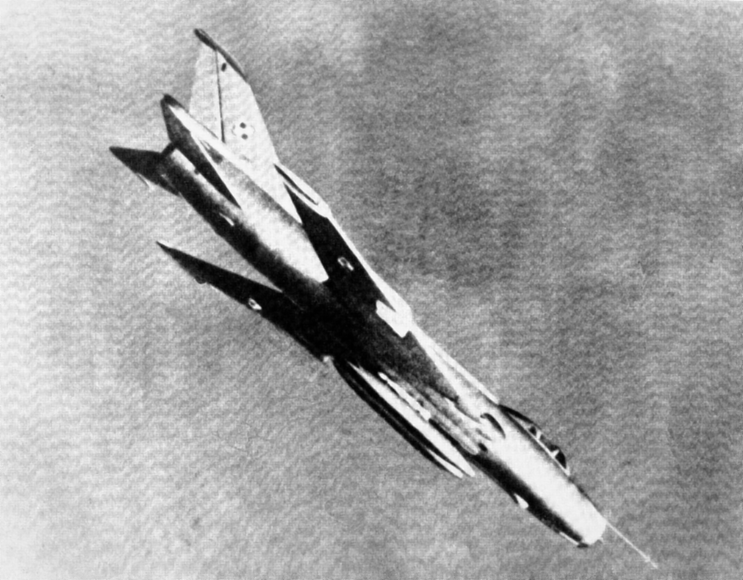 Right rear view of a Soviet Su-17 Fitter C aircraft preparing to land. (SUBSTANDARD)